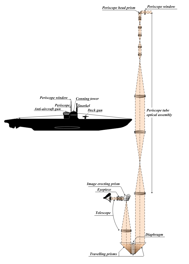 Zeiss fixed eyepiece submarine periscope.